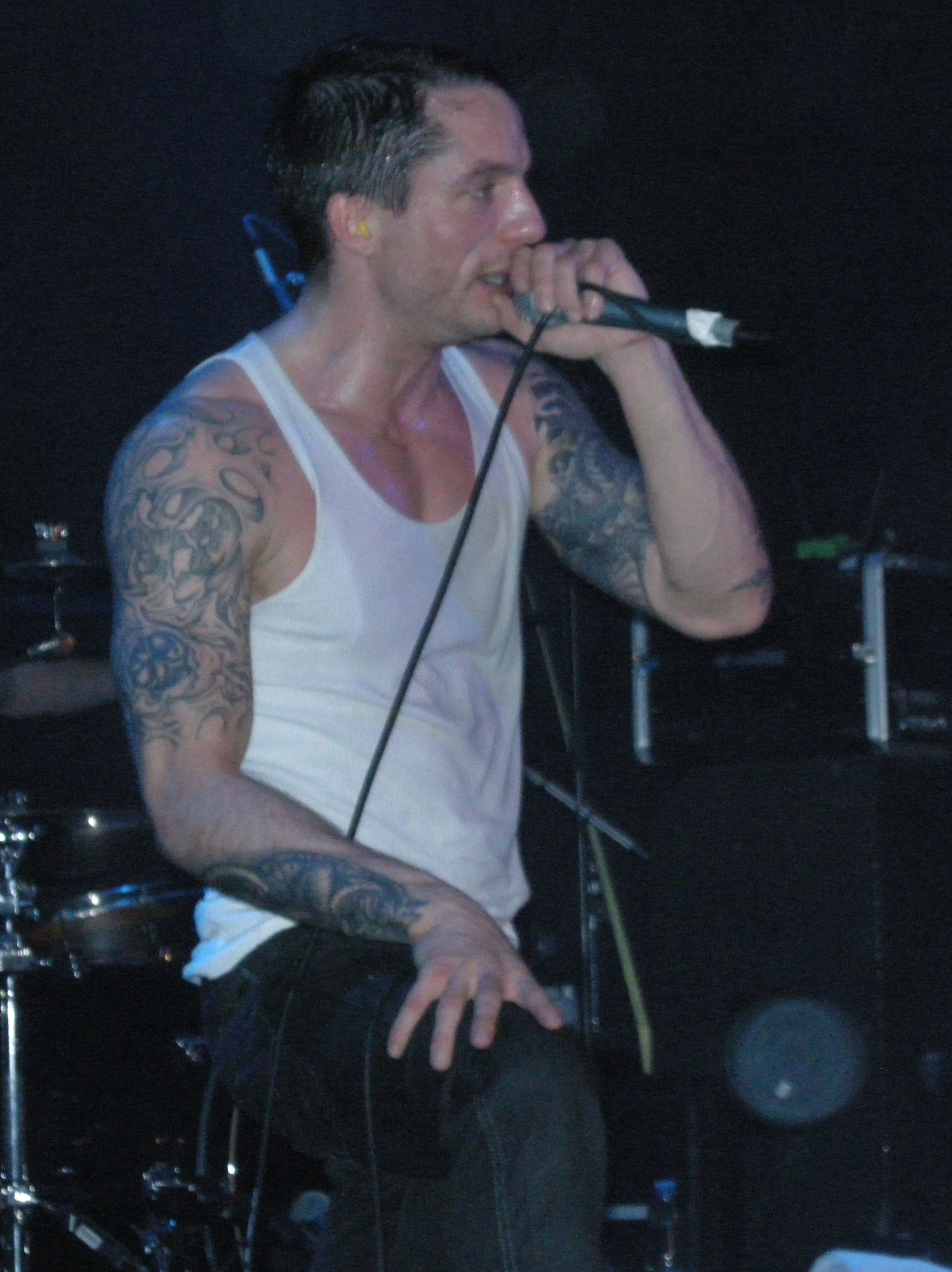 Singer Alexander Rajkovic of Swedish hardcore band Raised Fist at Close-Up boat February 2011